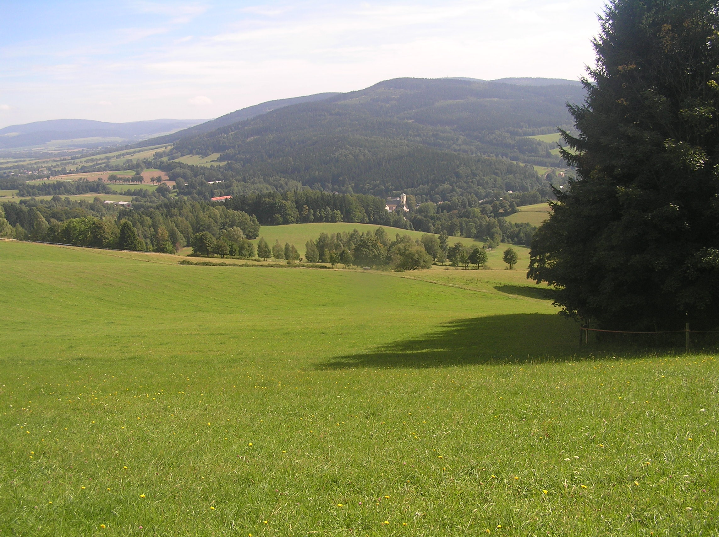 The village mladkov from the hill Adam, Czech Republic